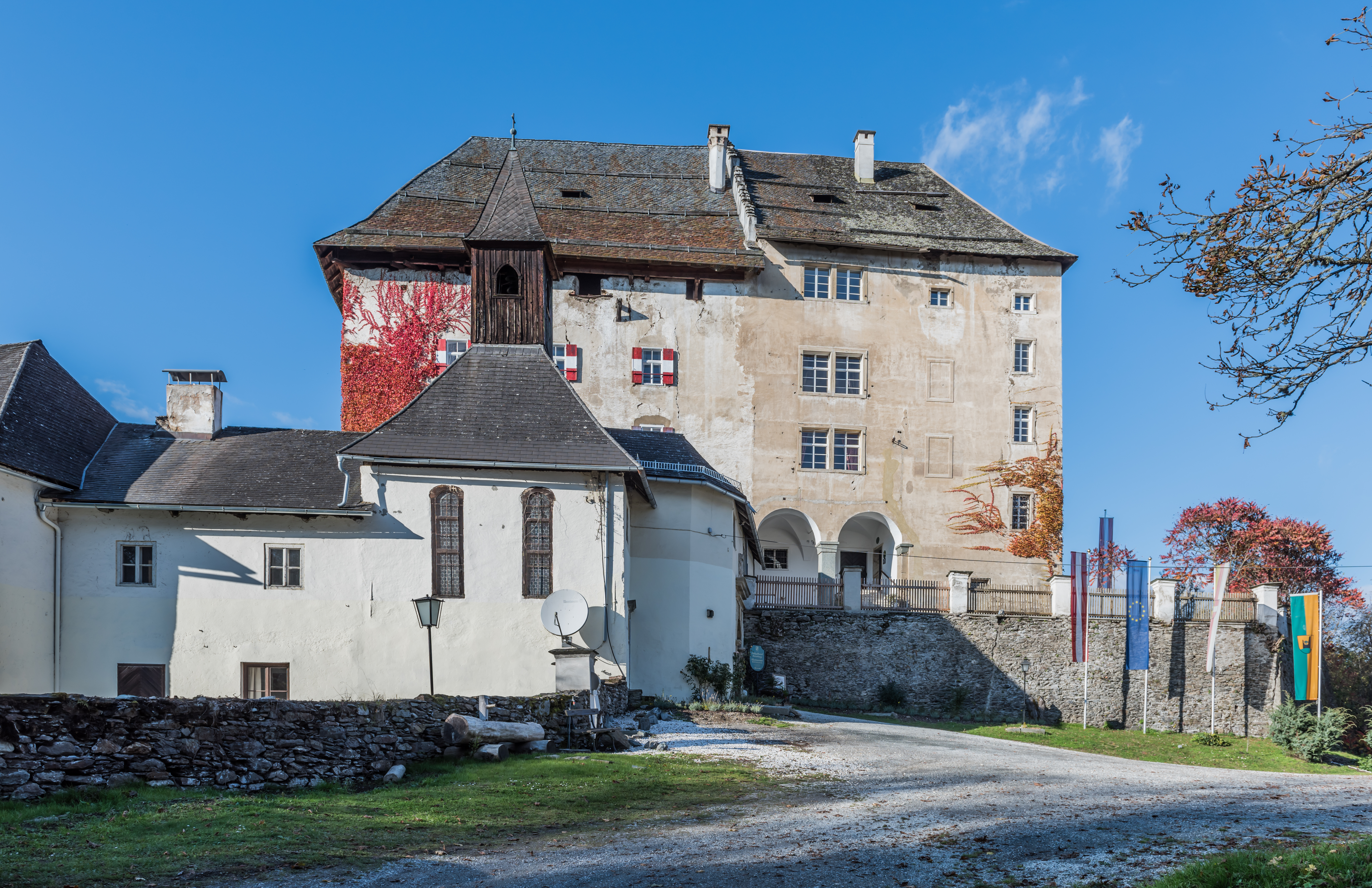 Southern view of the castle on Schloss #1, market town Moosburg, district Klagenfurt Land, Carinthia, Austria, EU